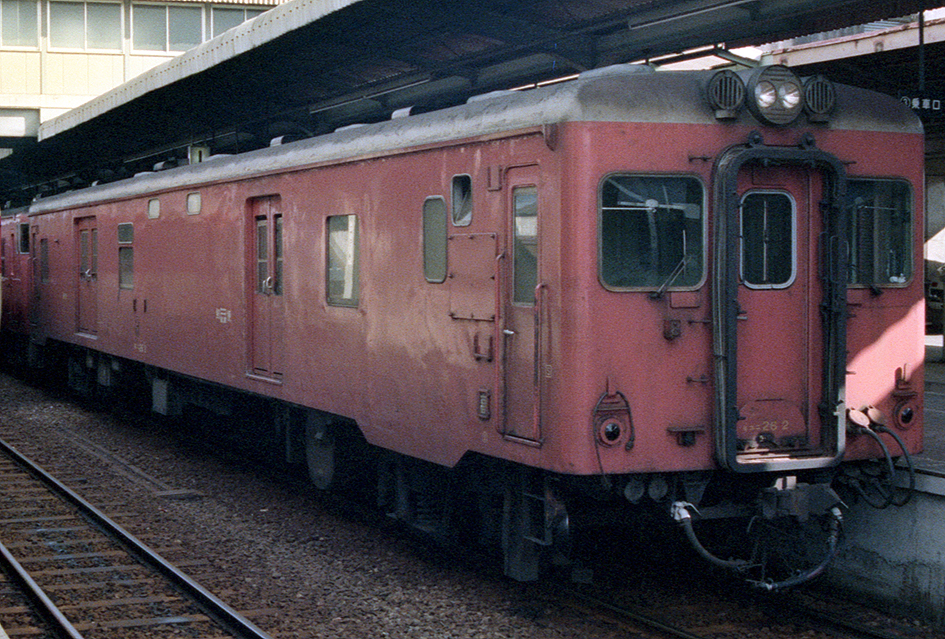 Japan National Railway Kiyuni 26 2 freight car at Kochi Station